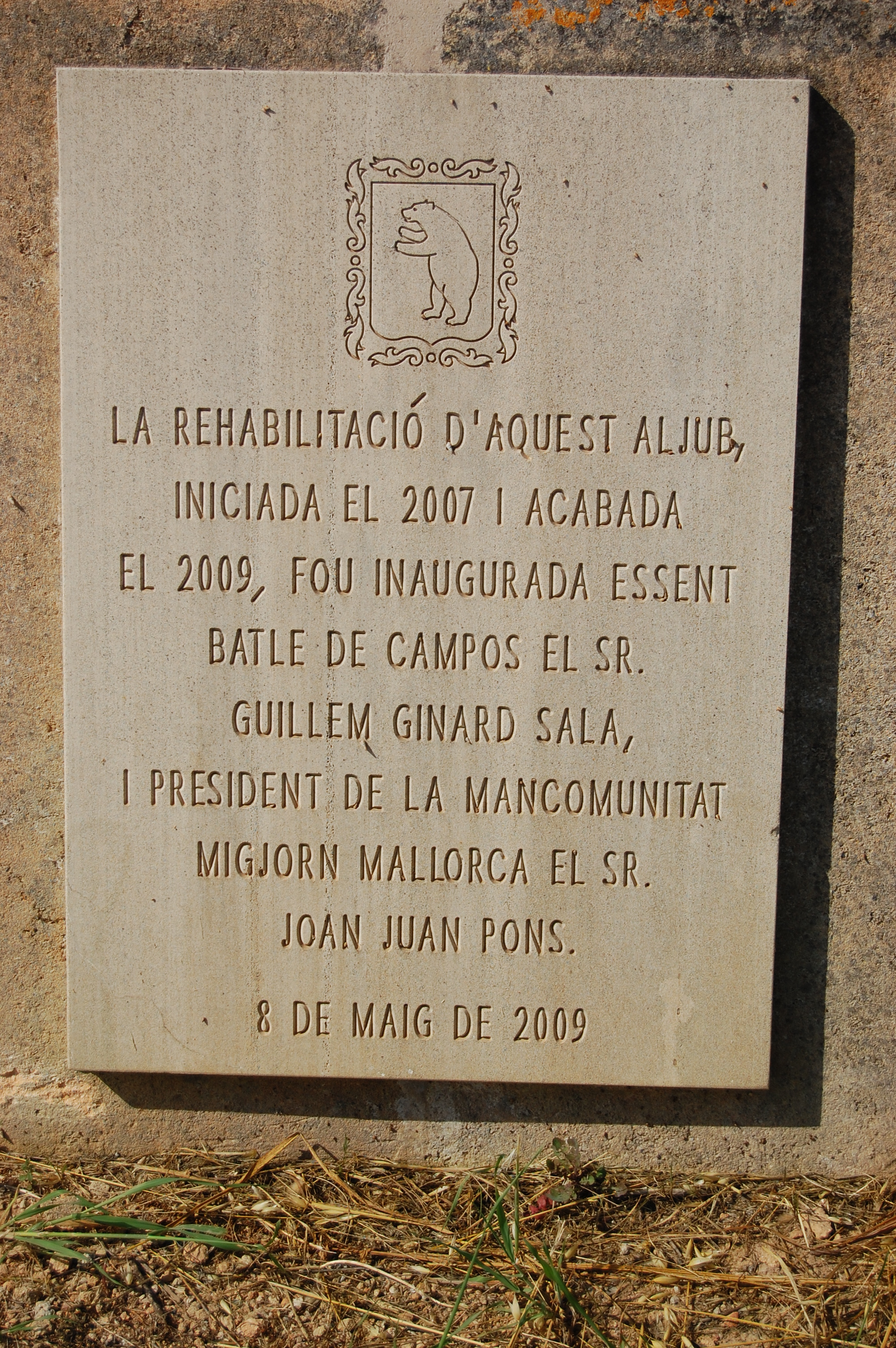 Plaque on Aljub de la Font Santa in Majorca. the inscription translates as The restoration of this well, started in 2007 and completed in 2009, was unveiled by Mayor of Campos Mr. Guillem Ginard Sala and President of the Commonwealth of South Mallorca Mr. Joan Juan Pons. 8 May 2009